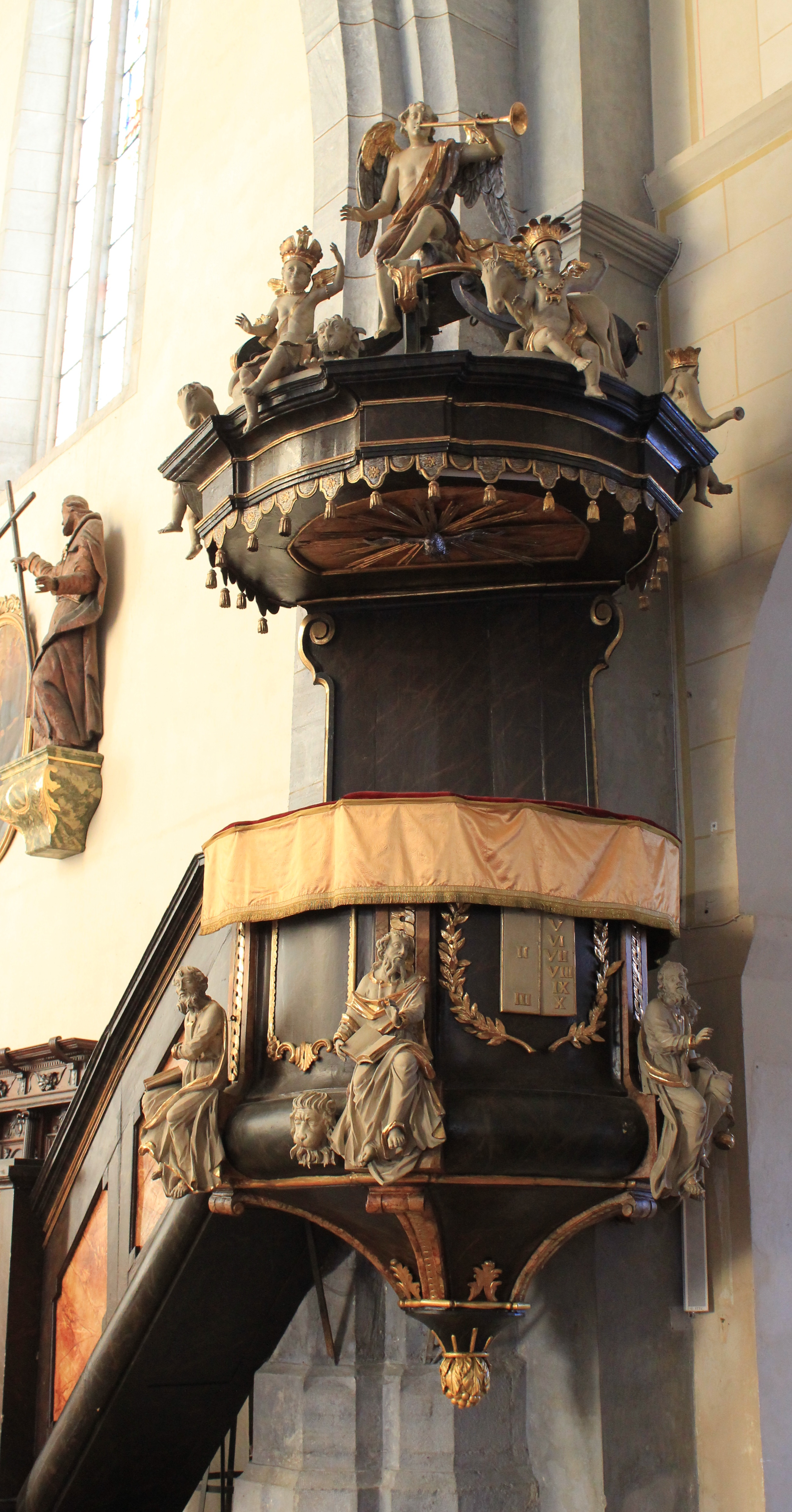 Parish church of Friesach: pulpit